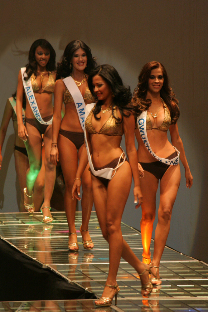 Candidates from Miss Nicaragua 2008